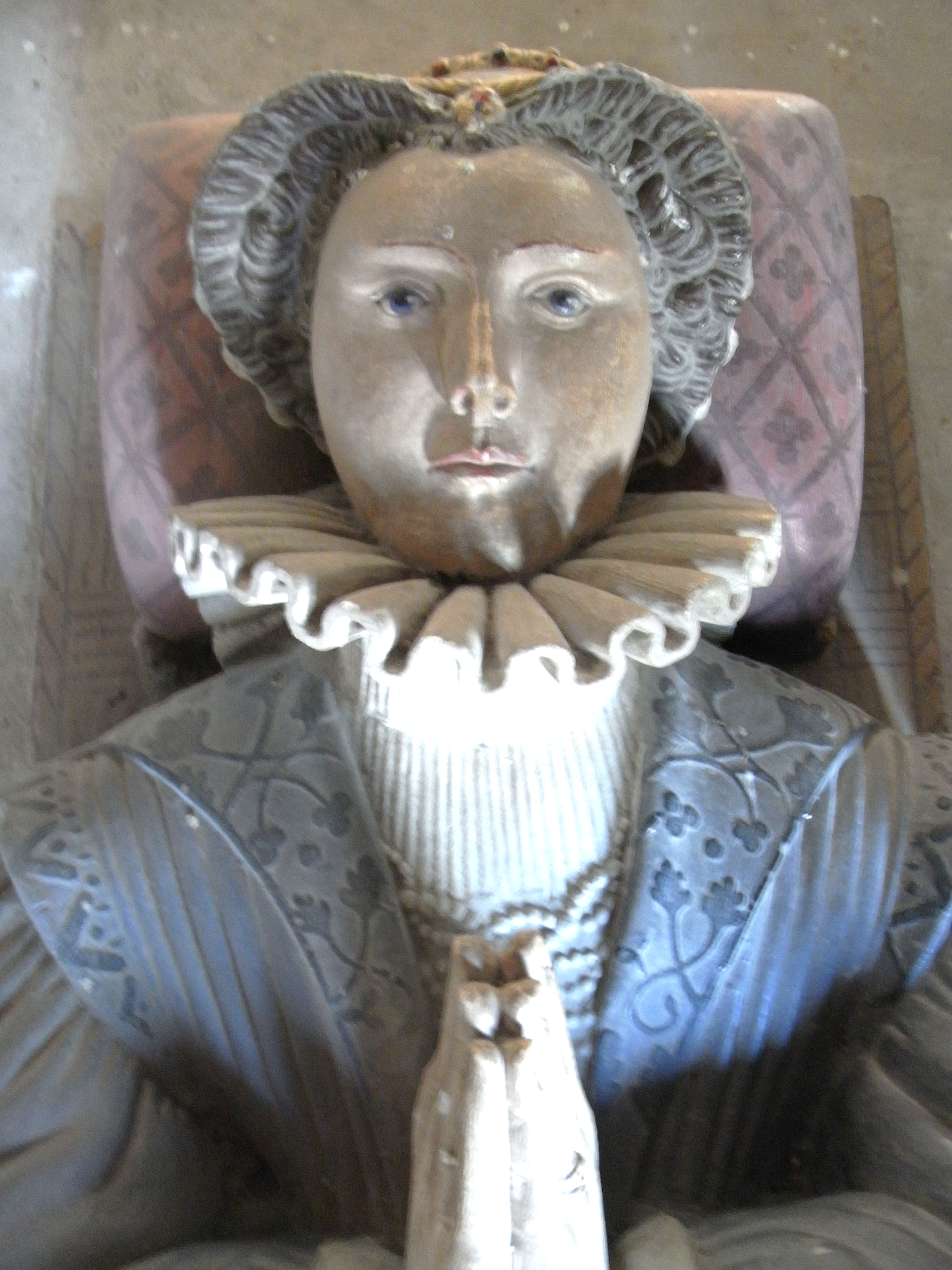 Frances Kitson, a daughter of Sir Thomas Kitson (d.1540) of Hengrave Hall, Suffolk, and wife of John Bourchier, Lord FitzWarin, eldest son and heir apparent of John Bourchier, 2nd Earl of Bath (d.1560), of Tawstock Court, Devon. Detail from her monument in Tawstock Church, Devon